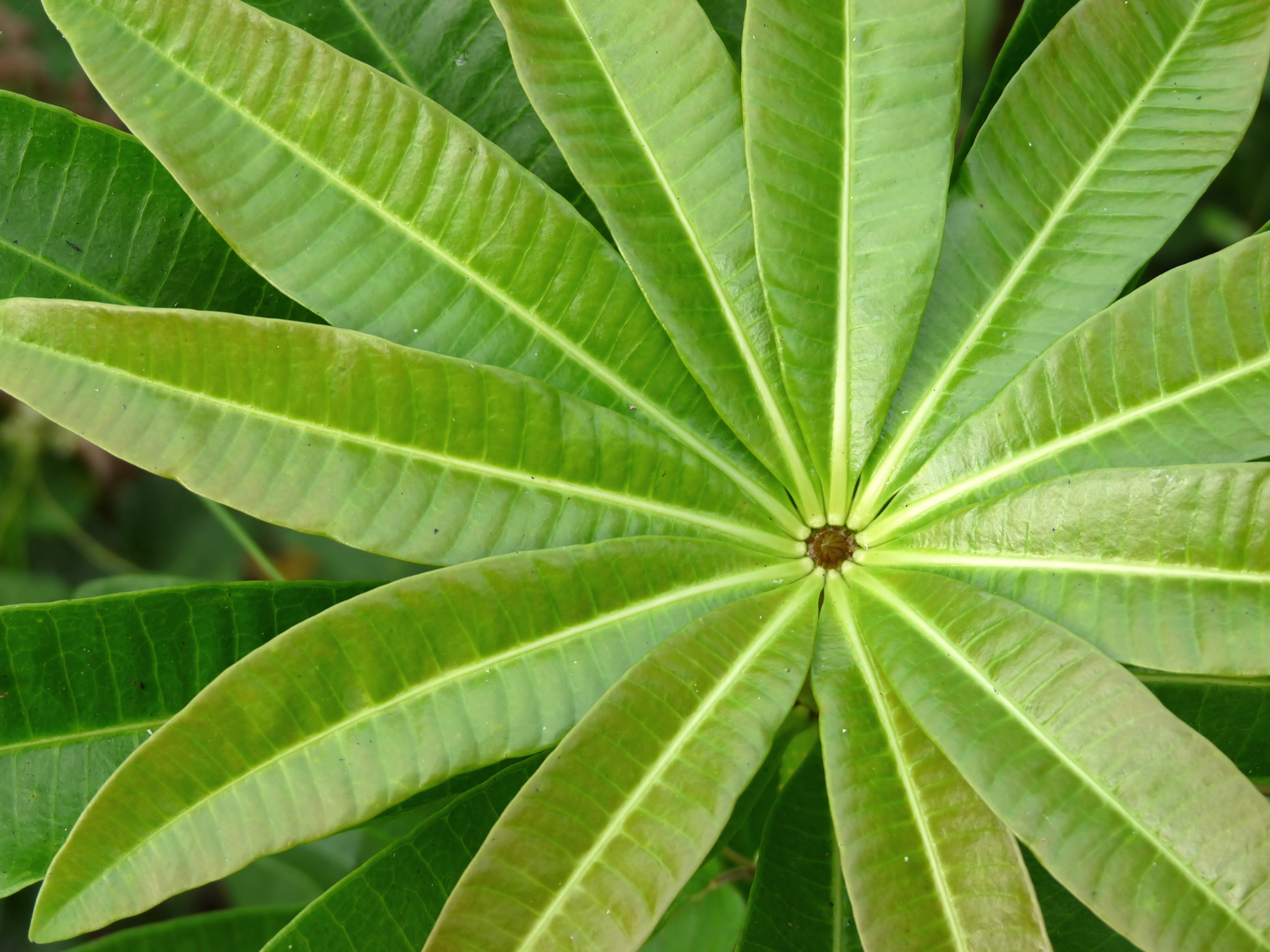 Alstonia scholaris, commonly called Blackboard tree, Indian devil tree, Ditabark, Milkwood pine, White cheesewood and Pulai, is an evergreen, tropical tree in (Apocynaceae family, native to the Indian subcontinent and Indomalaya, Malesia and Australasia. It is a glabrous tree and grows up to 40 m tall, mature bark is grayish and young branches are copiously marked with lenticels. The upperside of the leaves are glossy, while the underside is greyish. Leaves occur in whorls of 3-10; but here it is 11. :) Flowers bloom in the month October. The flowers are very fragrant similar to the flower of Cestrum nocturnum. Seeds are oblong, with ciliated margins, and ends with tufts of hairs 1.5–2 cm. The bark is almost odourless and very bitter, with abundant bitter and milky sap. Taken at Kadavoor, Kerala, India.